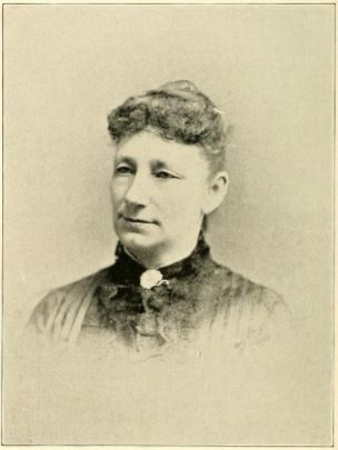 Mrs Bailey Gallinger